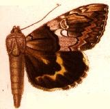 PLATE CXCIX.